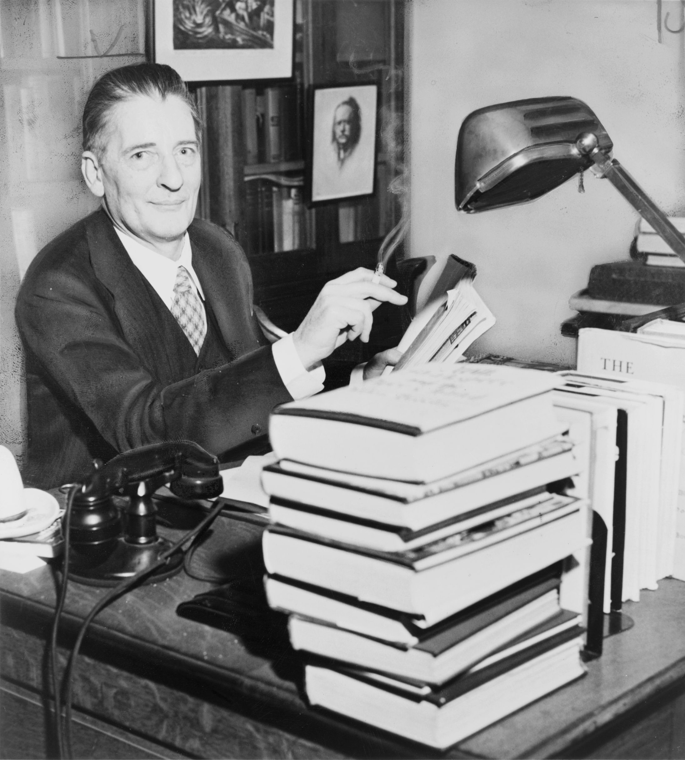 Maxwell Perkins, half-length portrait, seated at desk, facing slightly right / World Telegram & Sun photo by Al Ravenna.